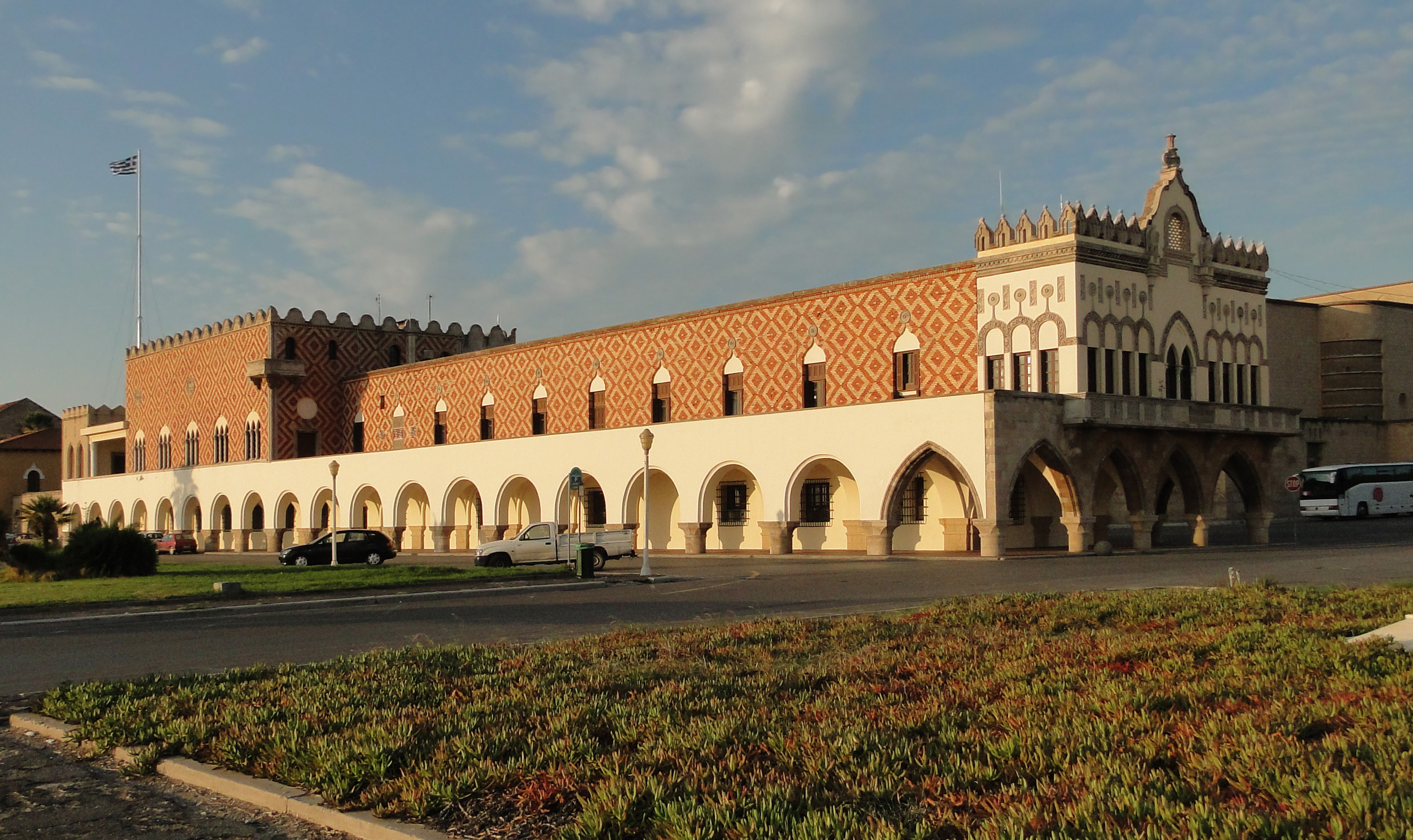 Offices of the Prefecture of the Dodecanese, former Palazzo del Governatore, in Rhodes, Greece